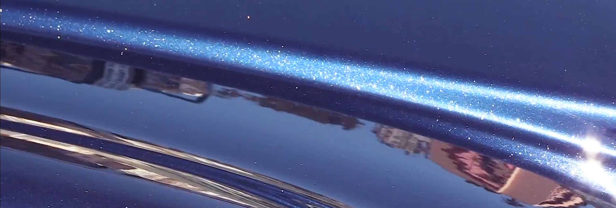 Sun King Diamond Coating on a Bentley Azure - detail